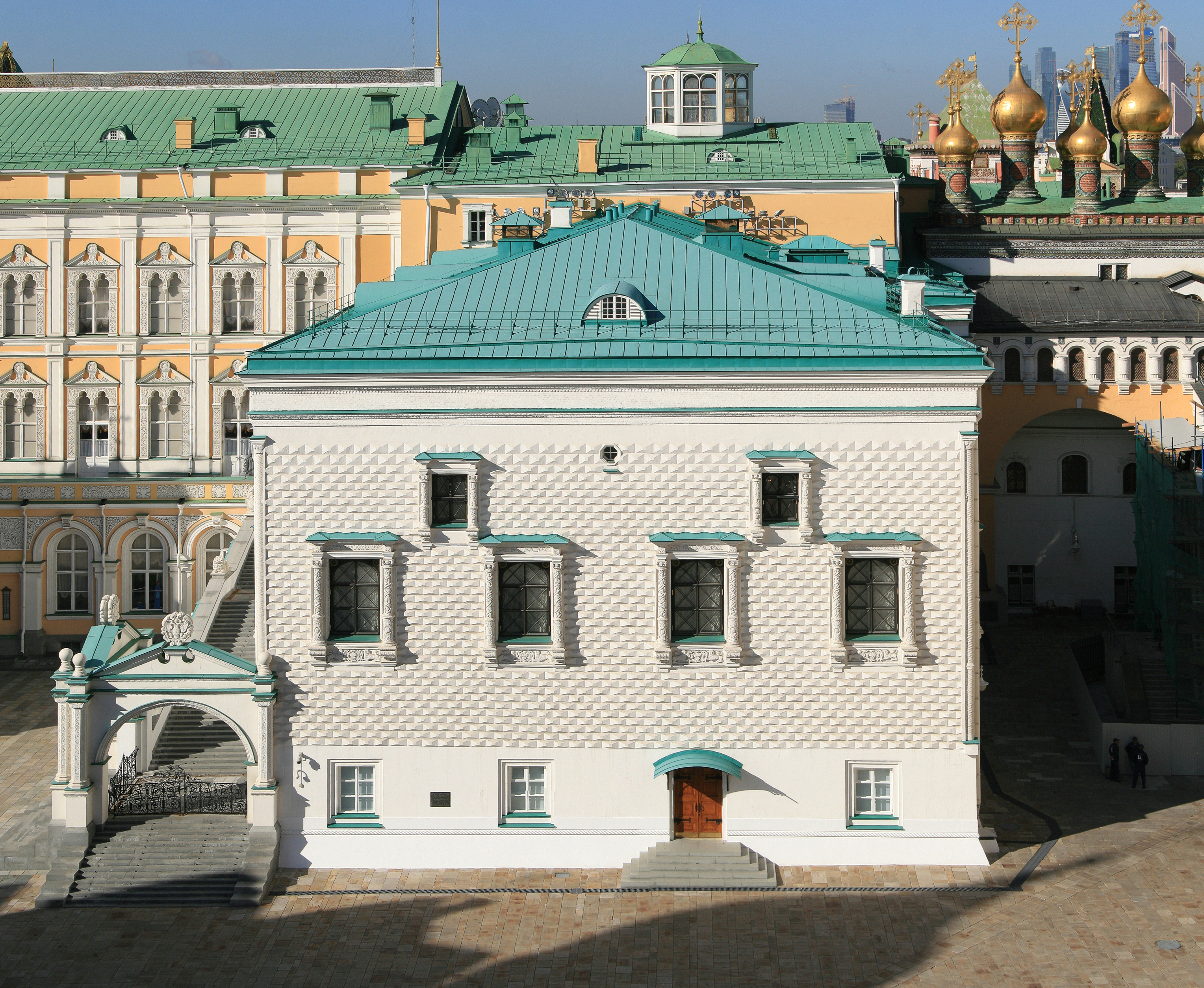 Moscow Kremlin, Palace of Facets. View from Ivan the Great Bell Tower